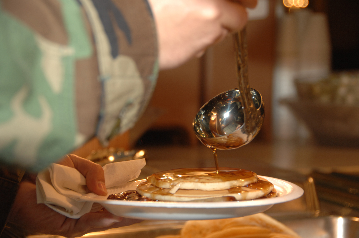 Team Offutt kicked off the Air Force Assistance Fund campaign Monday with a pancake feed breakfast at the Patriot Club.